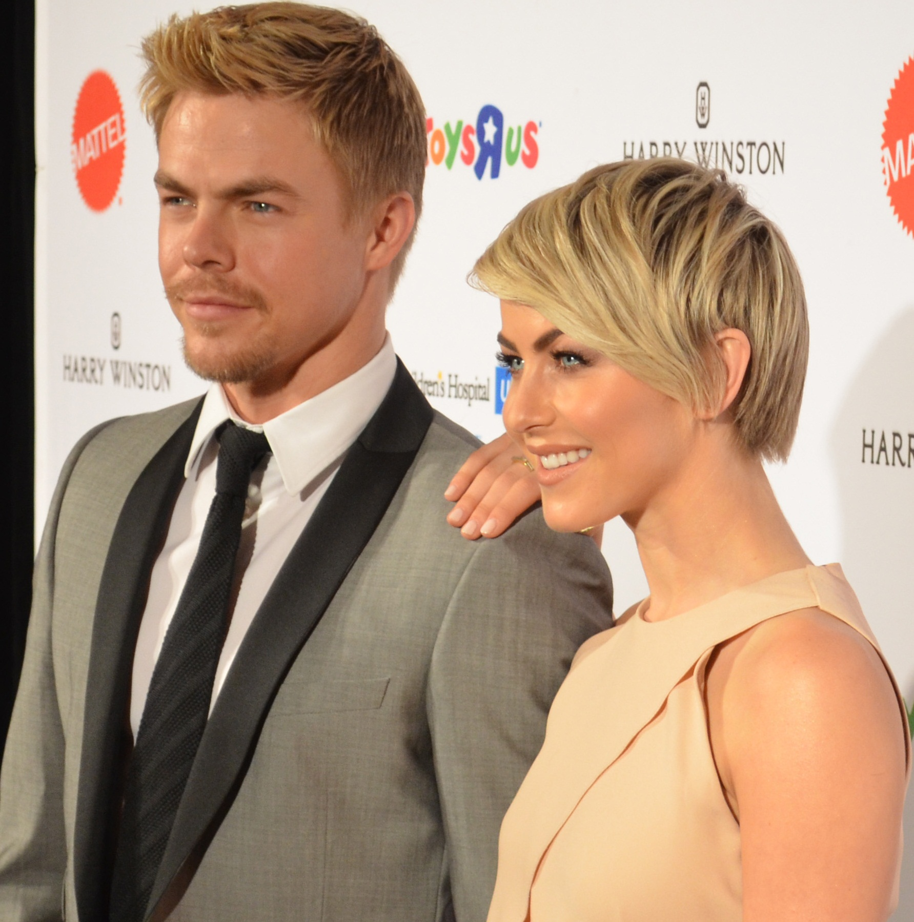 Derek Hough & Julianne Hough at the 2nd annual Kaleidoscope Ball – Designing the Sweet Side of L.A. at the Beverly Hills Hotel presented by Mattel Children’s Hospital UCLA and hosted by Maria Menounos